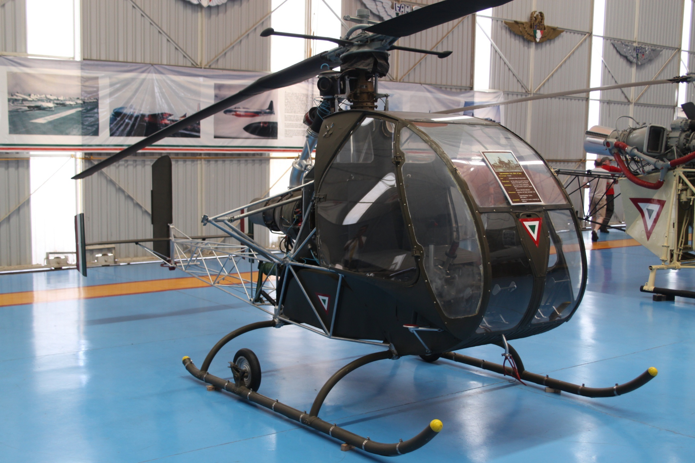 At Santa Lucia AFB, Mexico.